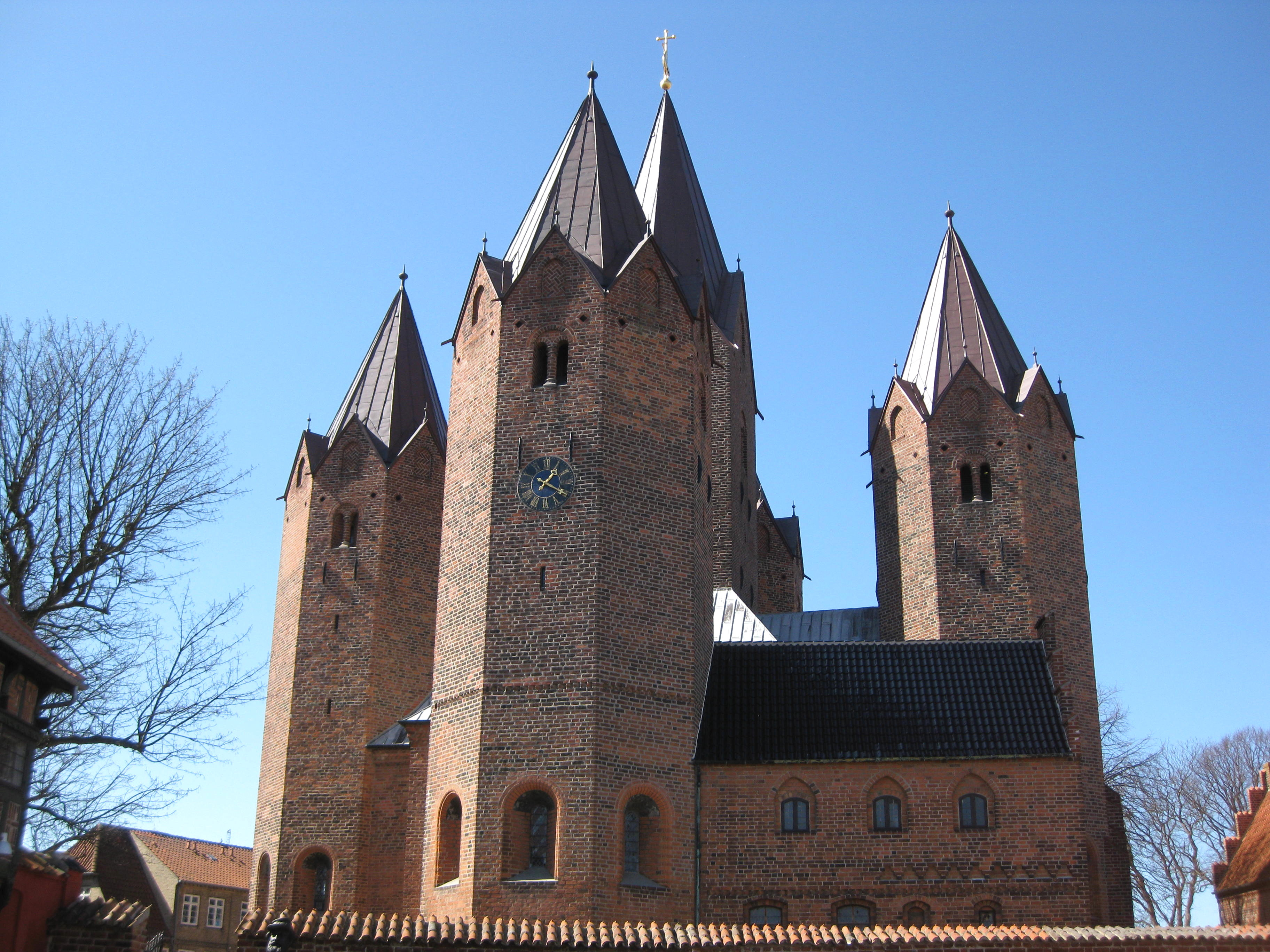 The church "Vor Frue Kirke" in the town Kalundborg. The town is located in West Zealand, Denmark.